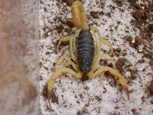 Photo of my own Hadrurus spadix.